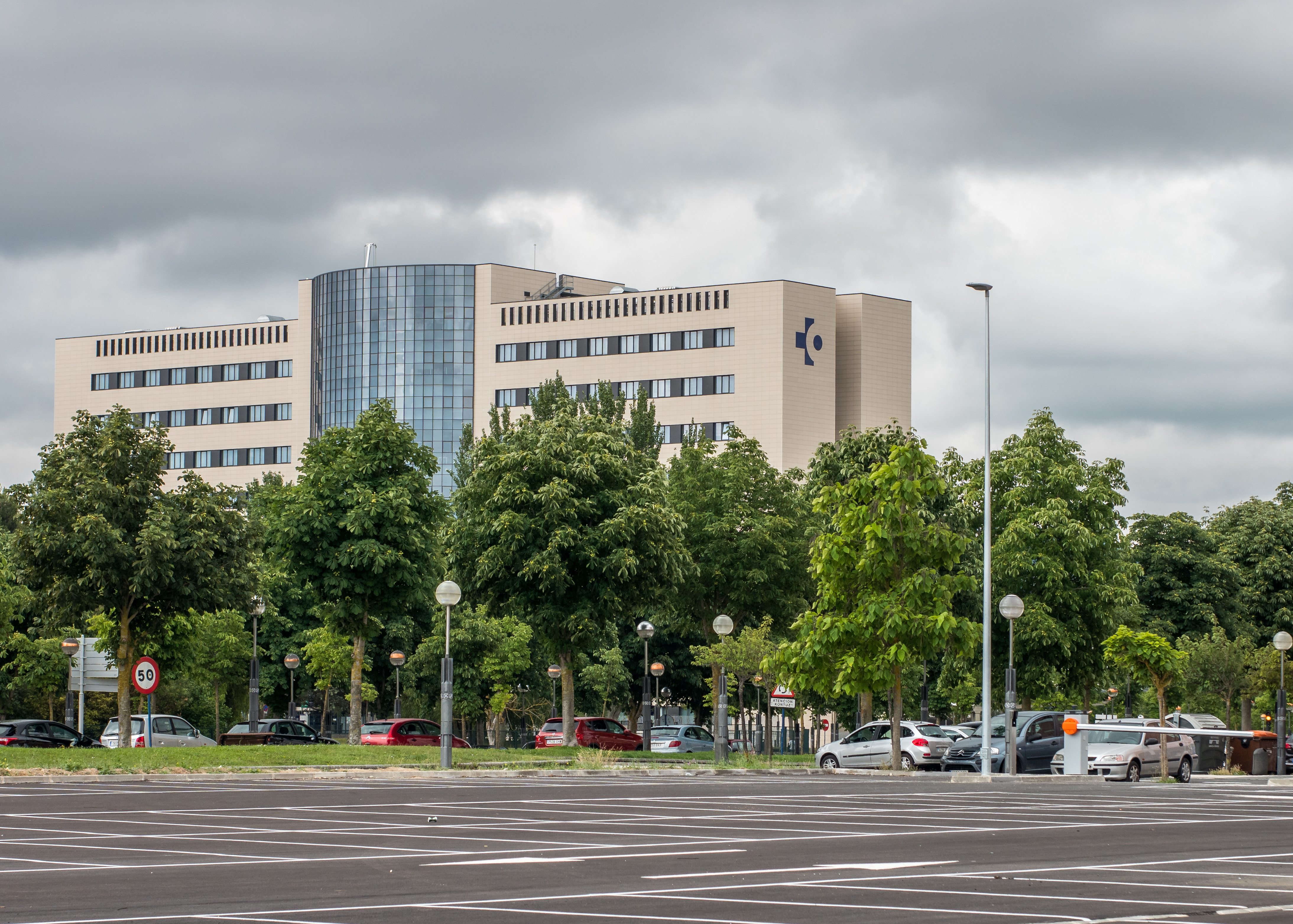 Building of the Txagorritxu hospital, "Consultas Externas". Vitoria-Gasteiz, Basque Country, Spain